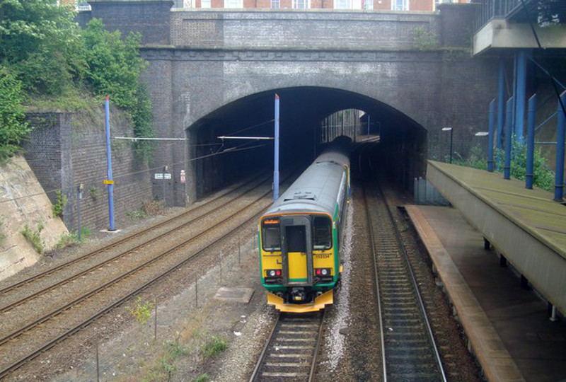 An eastbound train [next stop Birmingham Snow Hill] enters the tunnel just outside Jewellery Quarter station. The vehicle nearest to the camera is class 153 single car multiple unit No 153334. The two tracks to the left are of the Midland Metro tram system